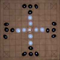 Tablut board, showing the initial position of all pieces. Photo taken by User:jeffhos in November 2004 and released under the GFDL.